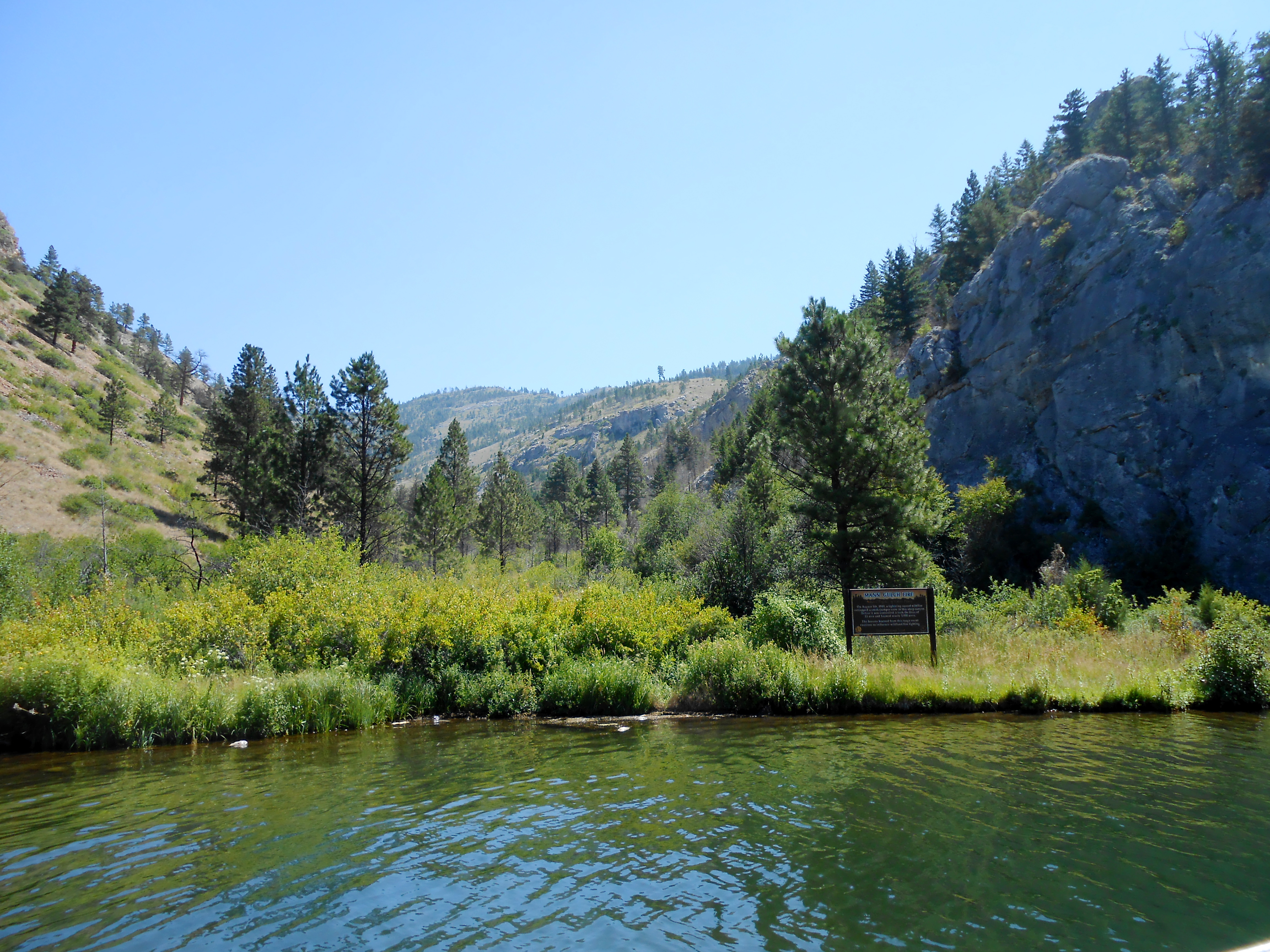 Mouth of Mann Gulch — on the Missouri River, in the Gates of the Mountains Wilderness Area of the Helena National Forest. Located in Lewis and Clark County, Montana.